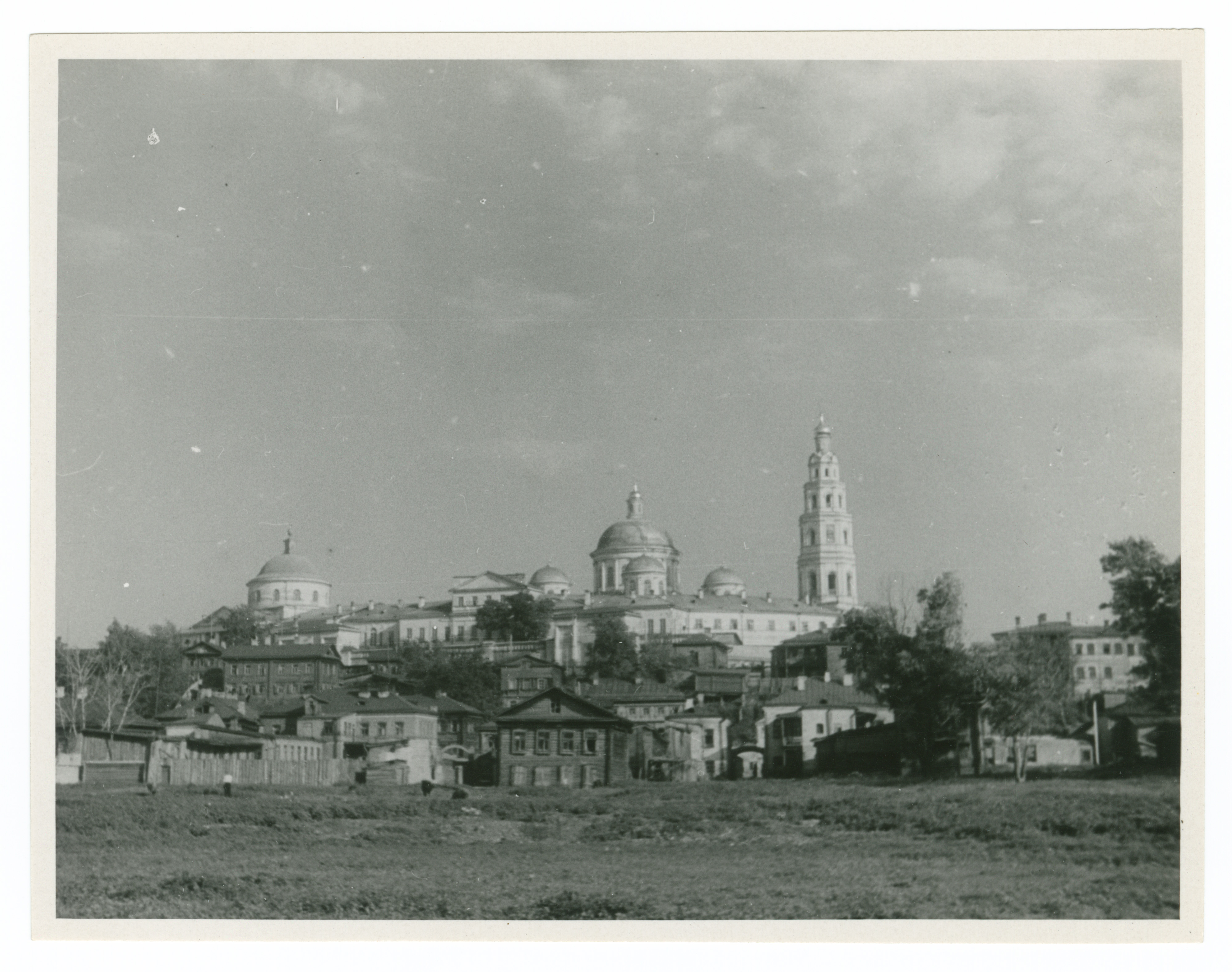 Kazanskiy Bogoroditskiy Monastery built on the spot where miraculous icon of Our Lady of Kazan was discovered